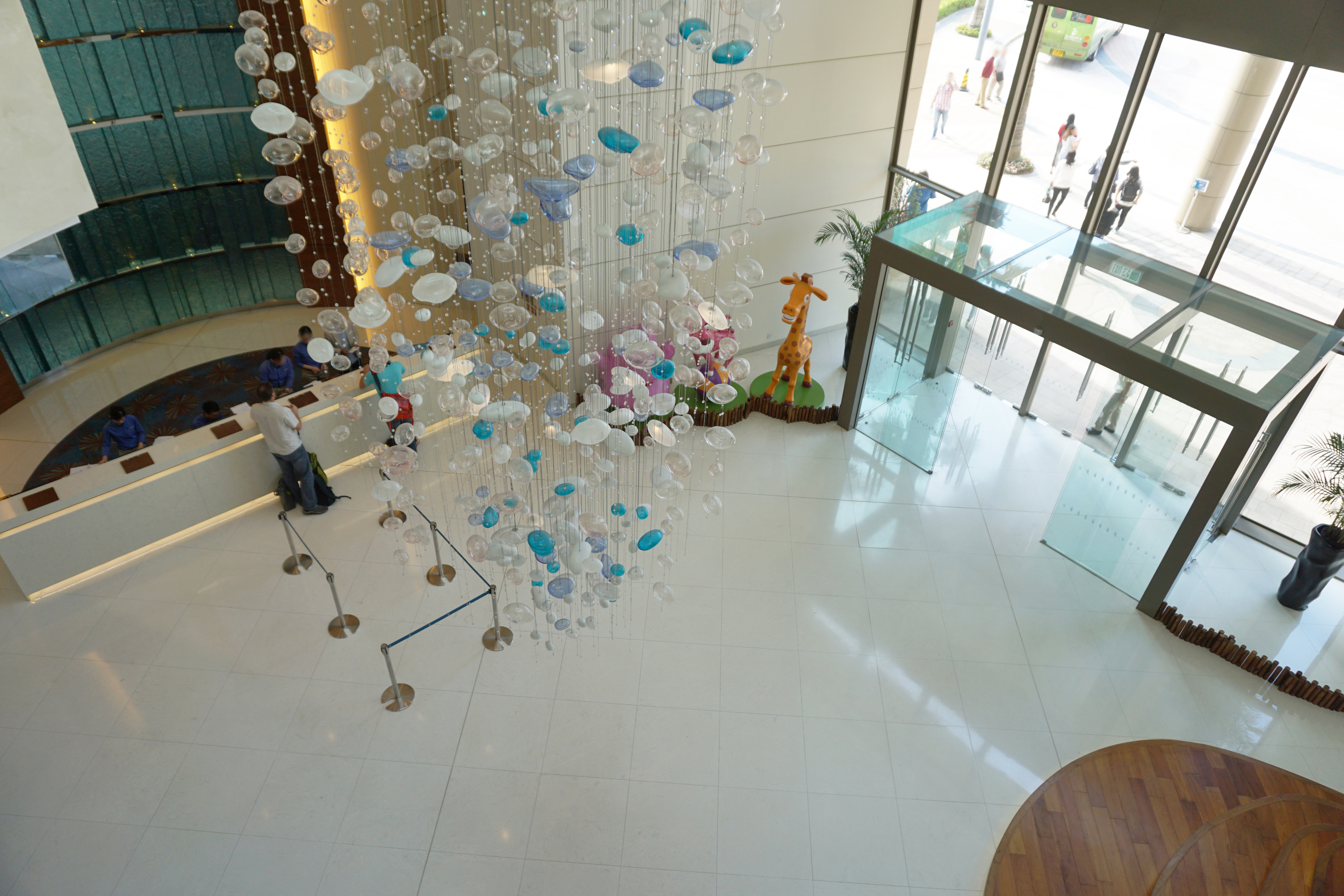 Auberge hotel in Discovery Bay, Hong Kong.